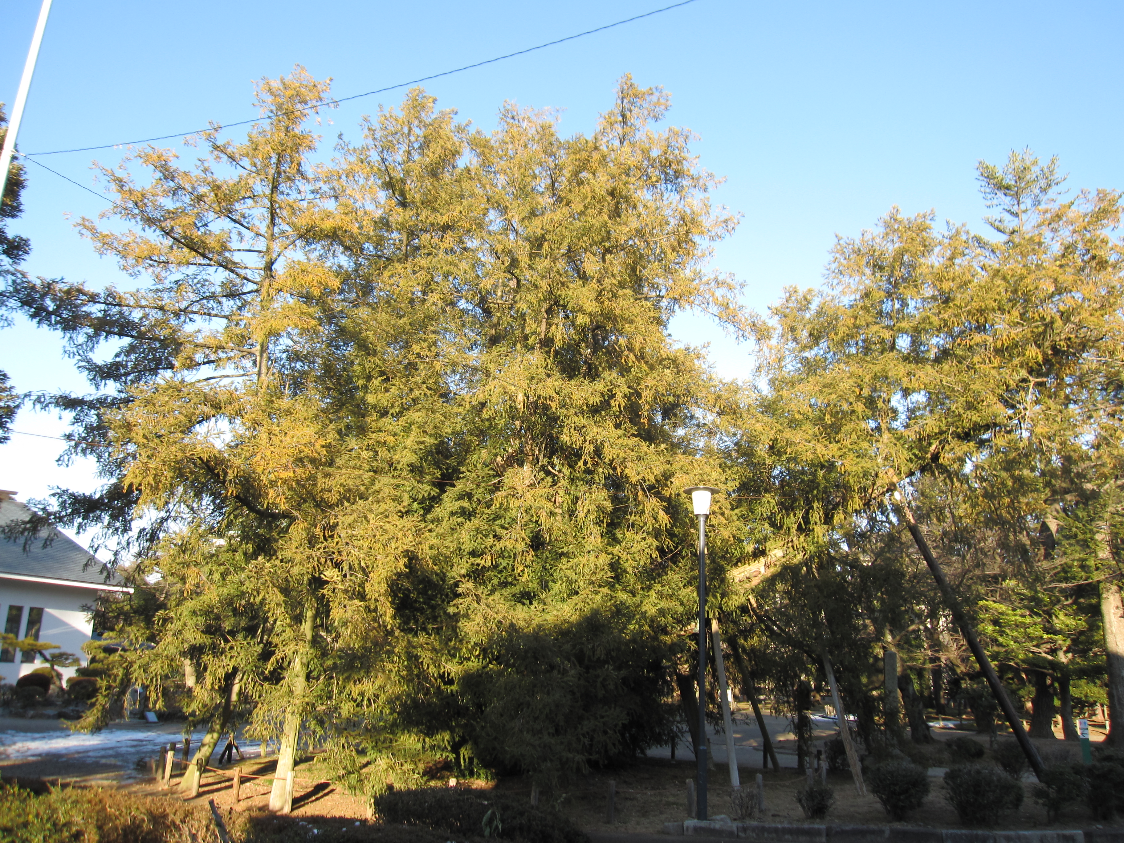 An old Torreya Nut Tree (Torreya Nucifera) at Nagoya Castle is located close to the Nishinomaru-enokida Gate to the north. Its height is 16 metres and eight metres at the base. It is over 600 years old and was already there when the castle was constructed. This is the only government-designated natural monument in Nagoya. Damaged by the air raids of 1945, the tree fortunately regained its viability. Tokugawa Yoshinao, the first lord of the castle, is said to have decorated his dinner tray with torreya nuts from this tree before going into battle in Osaka, and later for New Year's celebrations.